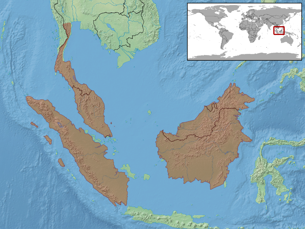 geographic distribution of Boiga nigriceps Native: Indonesia (Kalimantan, Sumatera); Malaysia (Peninsular Malaysia, Sabah, Sarawak); Thailand